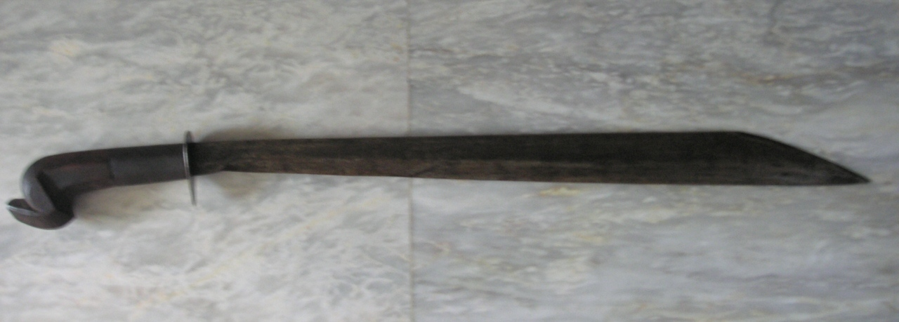 Bolo made from a jeepney's leaf spring. Author's own creation. Bolo made from a jeepney's leaf spring. Author's own creation.